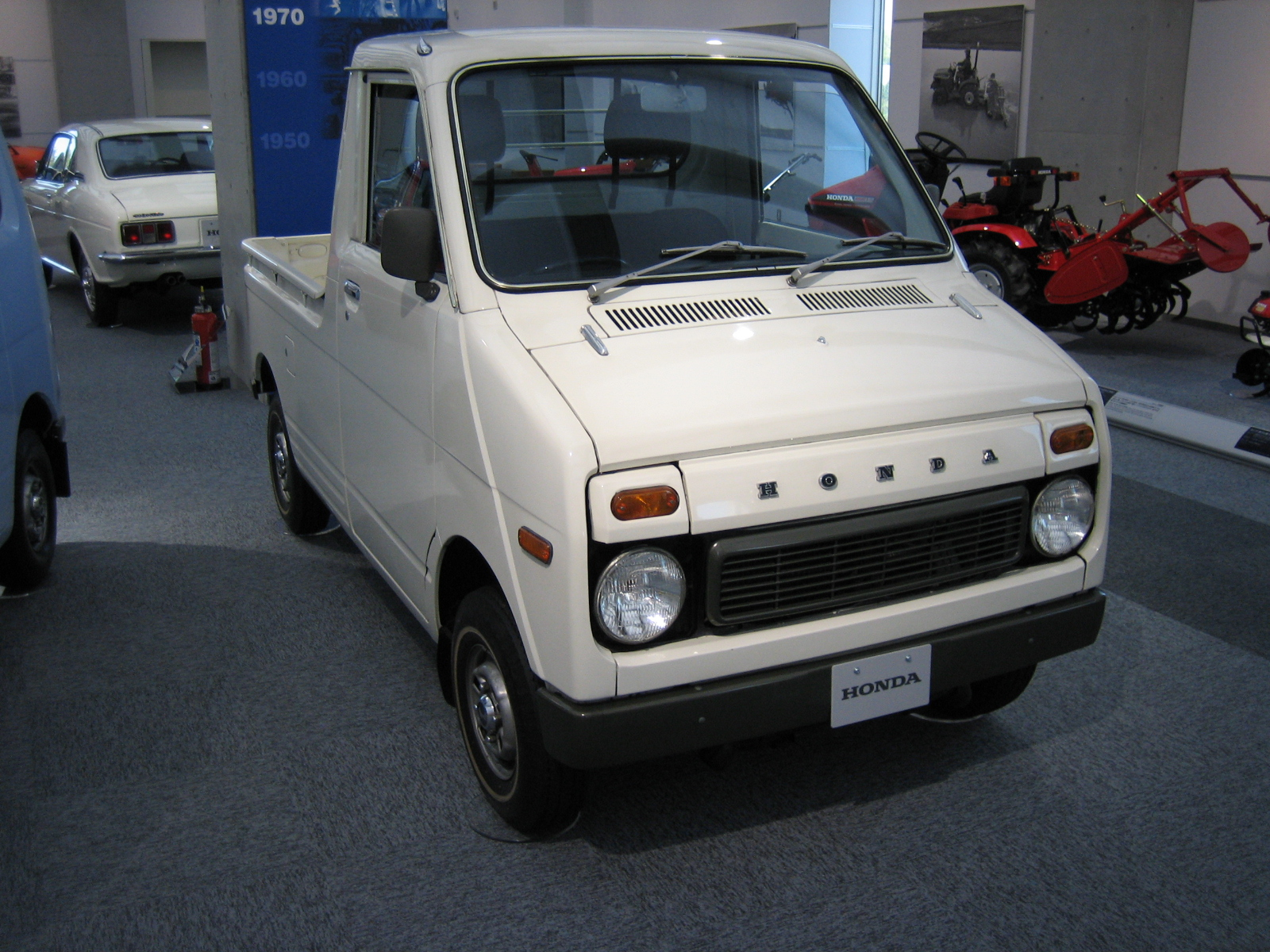 I photoed HondaLife-PickUp in the Honda collection hole.